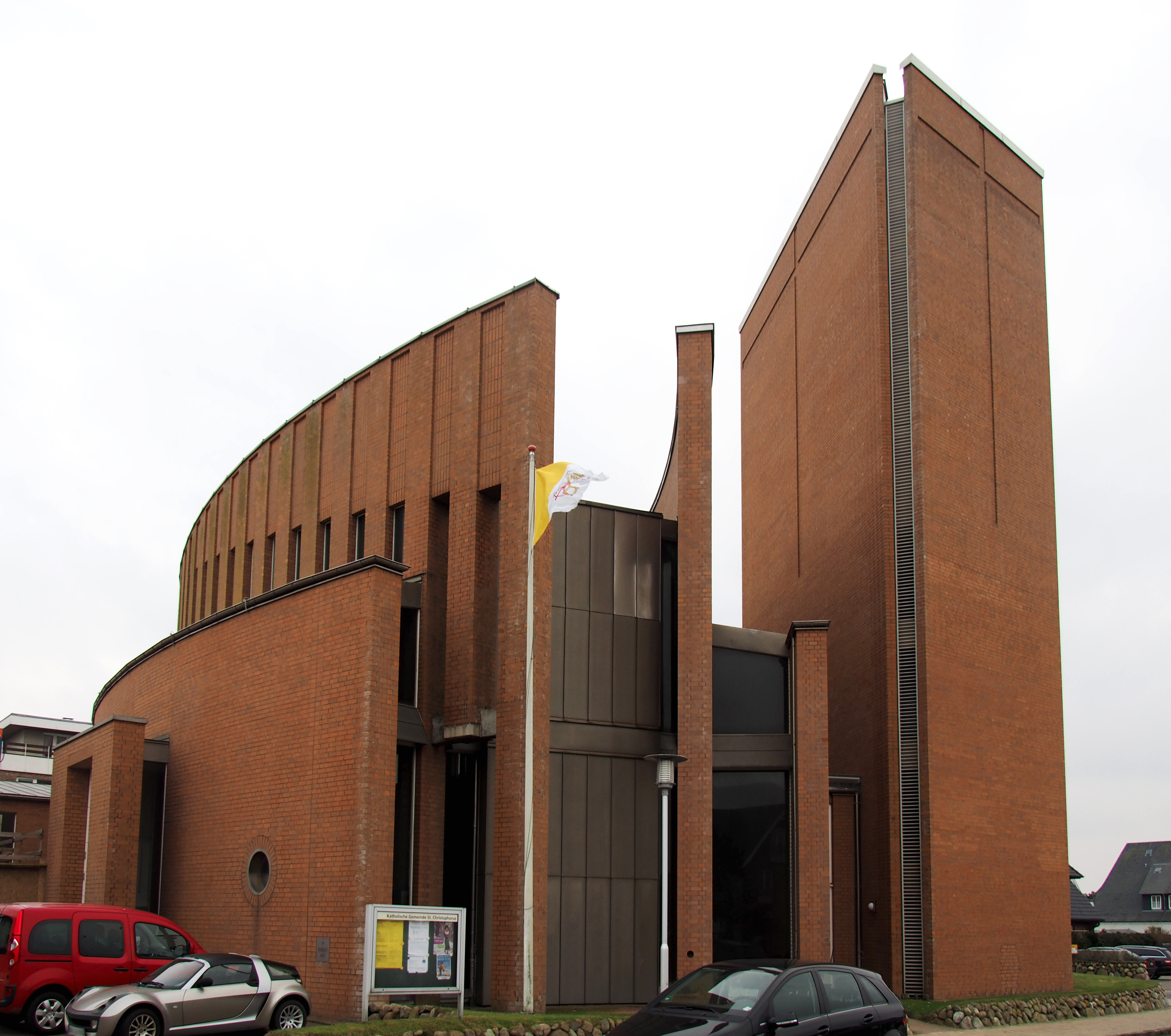 The catholic St. Christophers Church Westerland, Germany